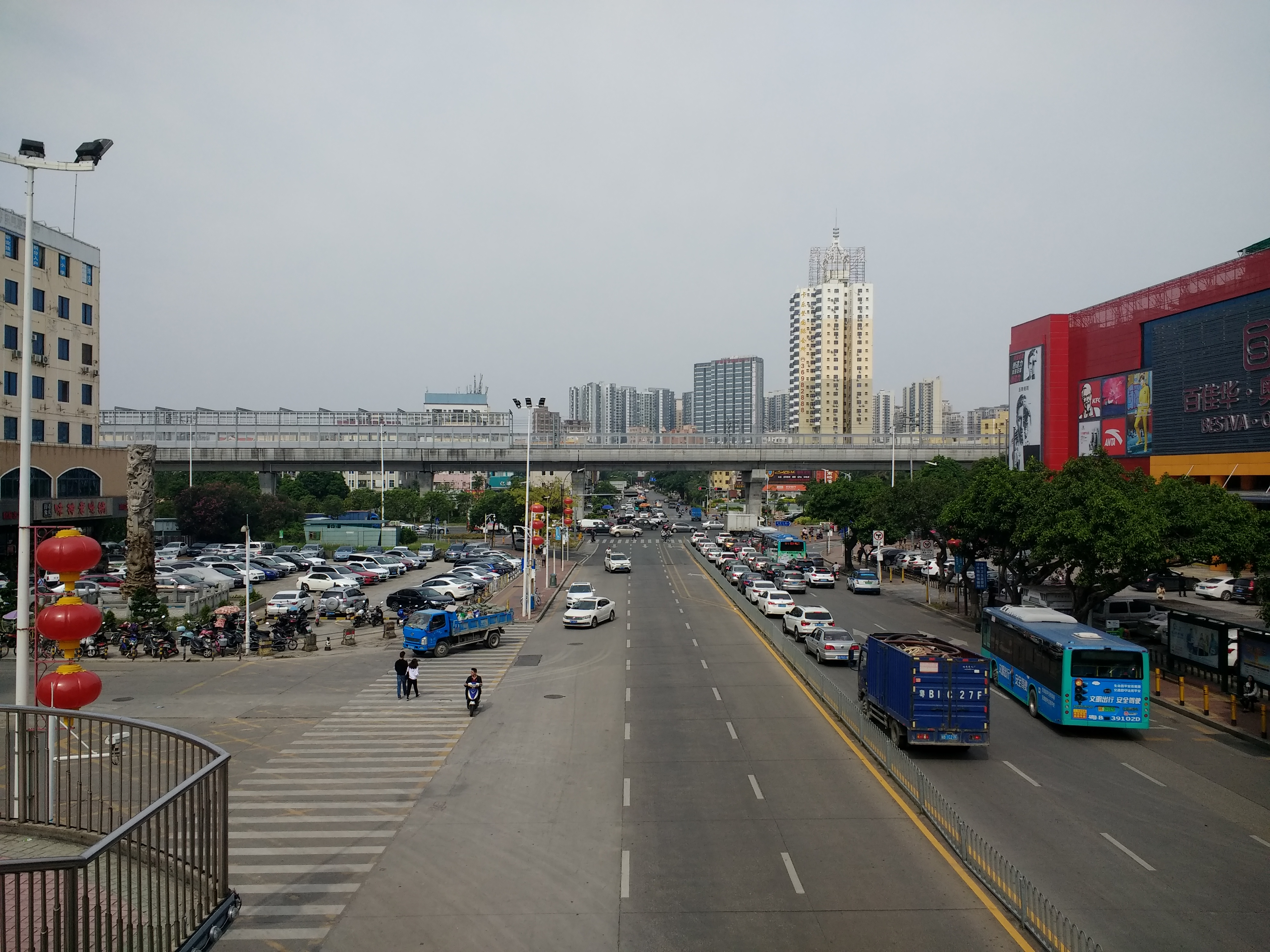 Shajing Subdistrict, Bao'an District, Shenzhen, China.